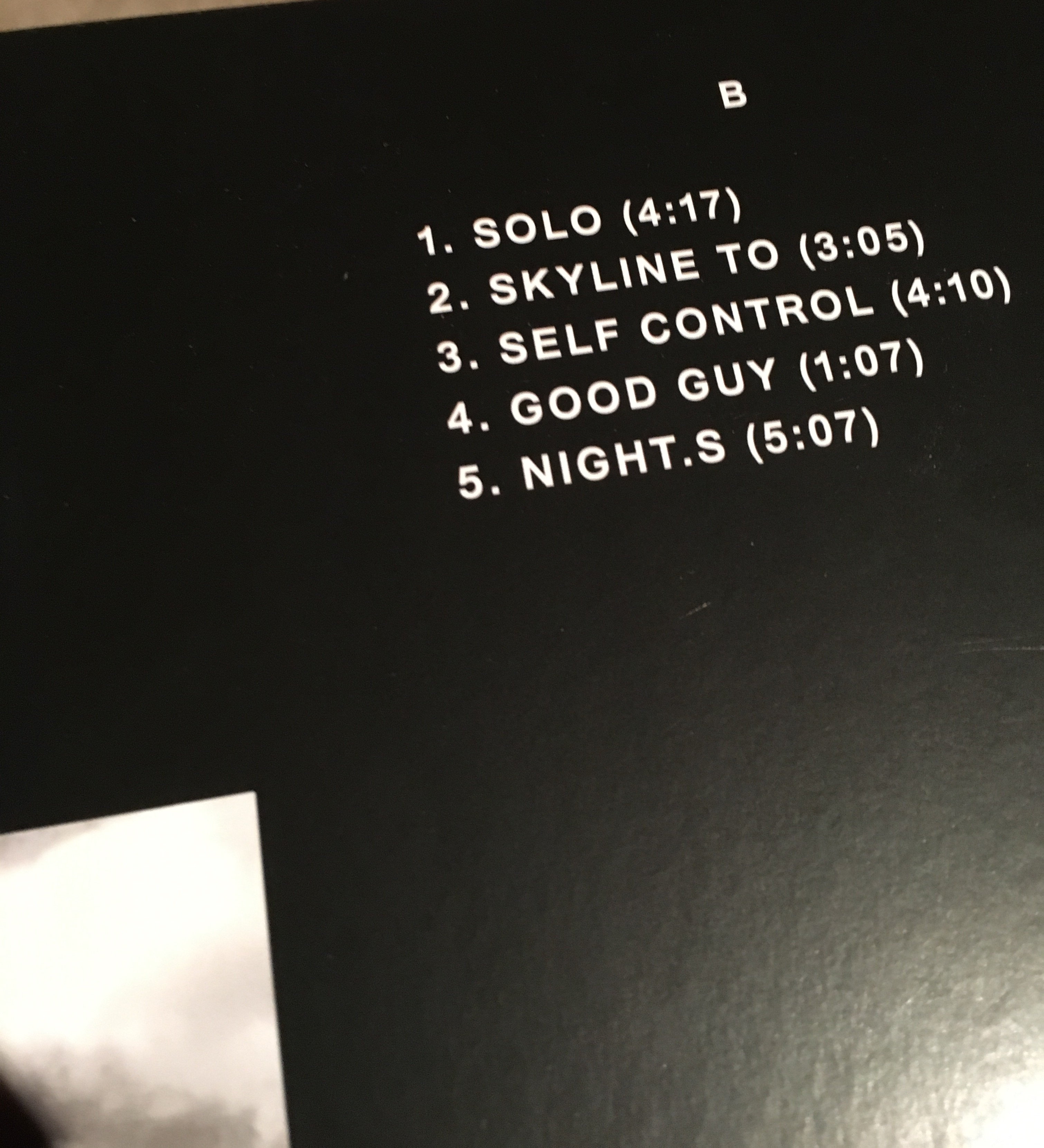 The track "Nights" appears as "Night.s" on the vinyl version of the Frank Ocean blonde album.